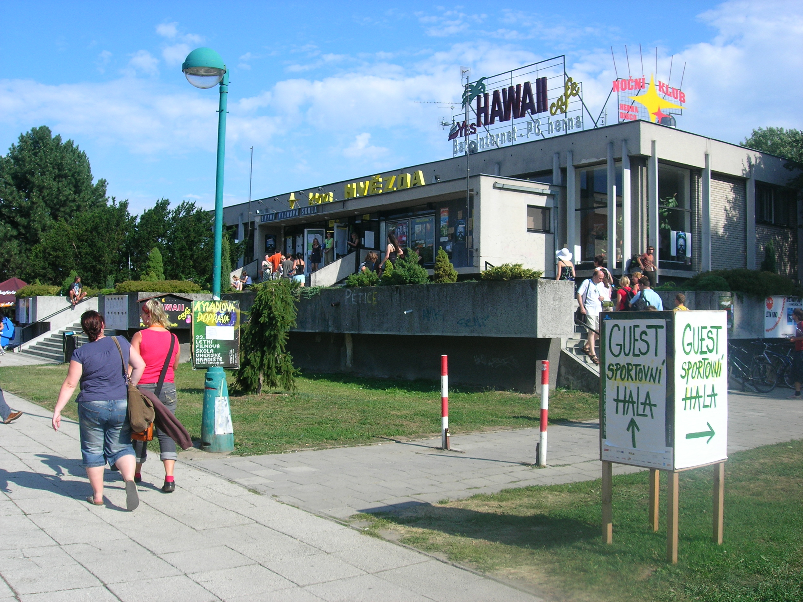 Summer school of film (Letni filmova skola) in Uherske Hradiste, Czech Republic, Hvezda cinema